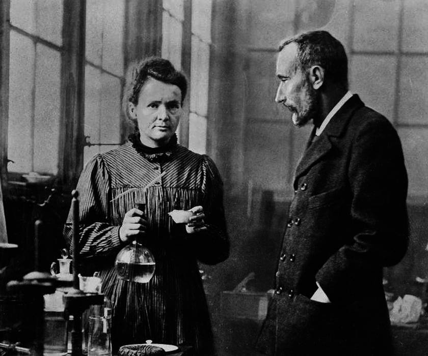 Portrait of Marie Curie and Pierre Curie